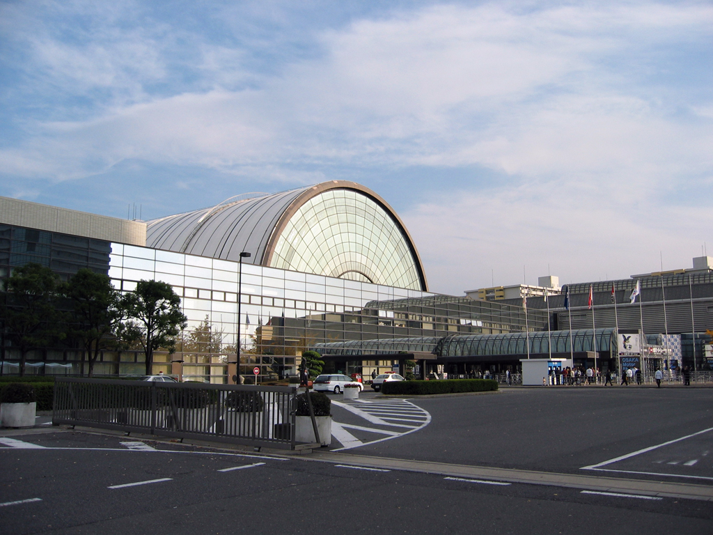 Photograph of Intex Osaka, International Exhibition Center, in Nanko-kita, Suminoe-ku, Osaka, Osaka Prefecture, Japan.